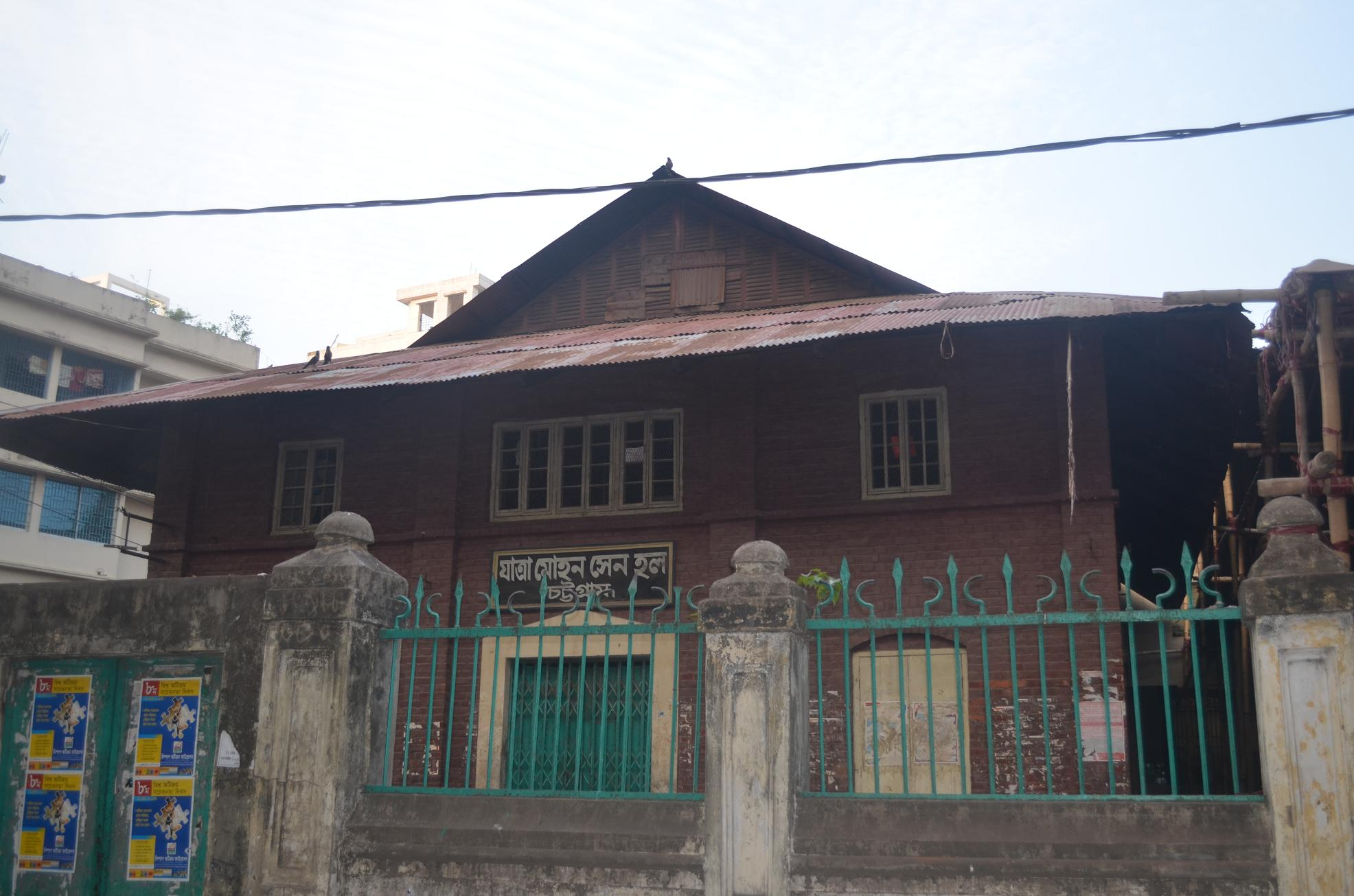 J M Sen Hall, Andorkilla, Chittagong.